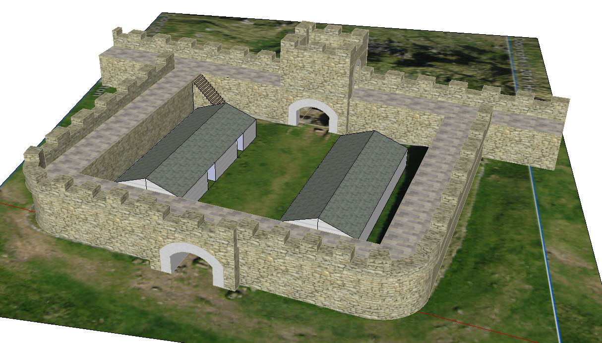 This is an impression of what a Mile Castle might have looked like ans was created in Google Sketchup - I have uploaded the SKP file to the 3 D warehouse and is available for download (